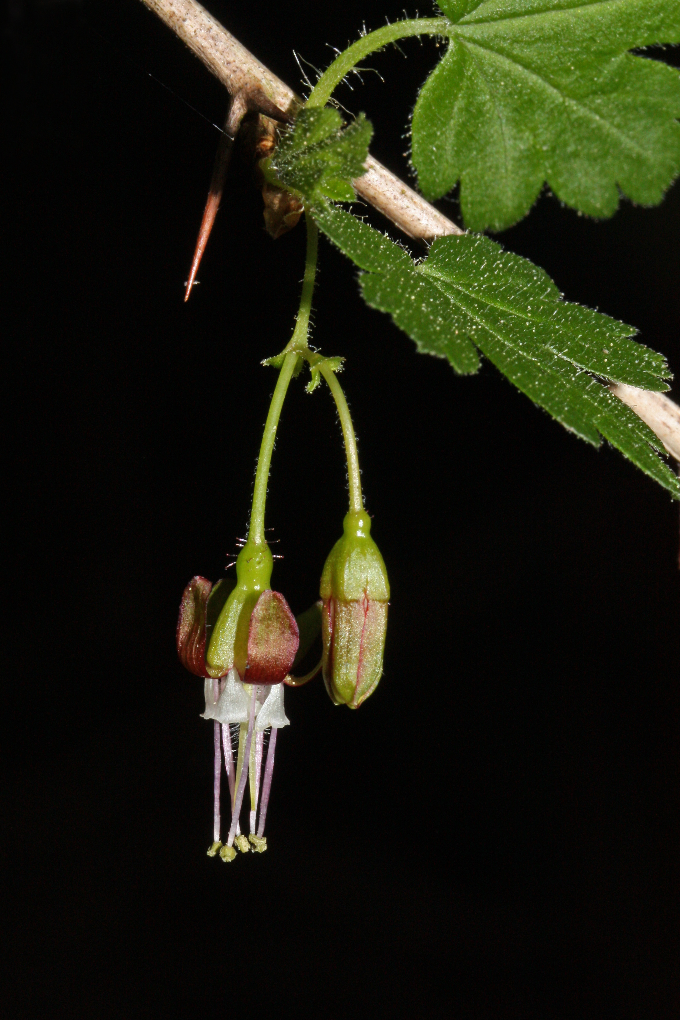 Spreading Gooseberry, Coast Black Gooseberry